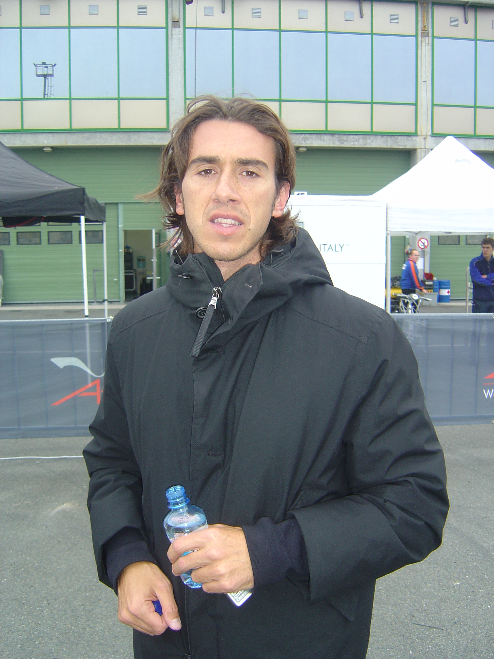 Enrico Toccacelo: the photo was taken during 2007's A1GP race weekend at Brno